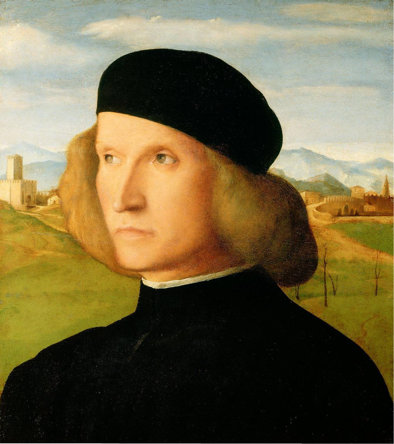 Used to be known as "Pietro Bembo"